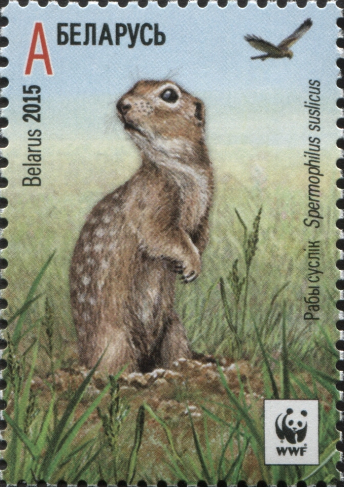 Stamps of Belarus, 2015